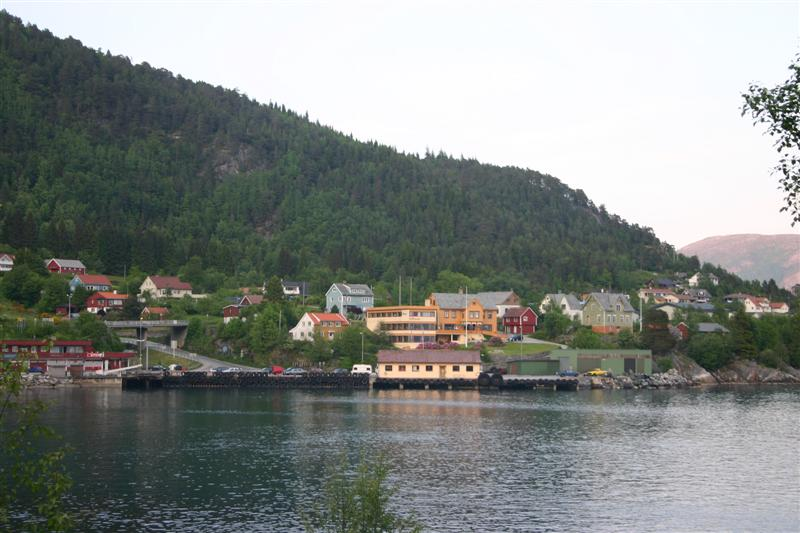 Shore of Lavik community on the Sogne Fjord